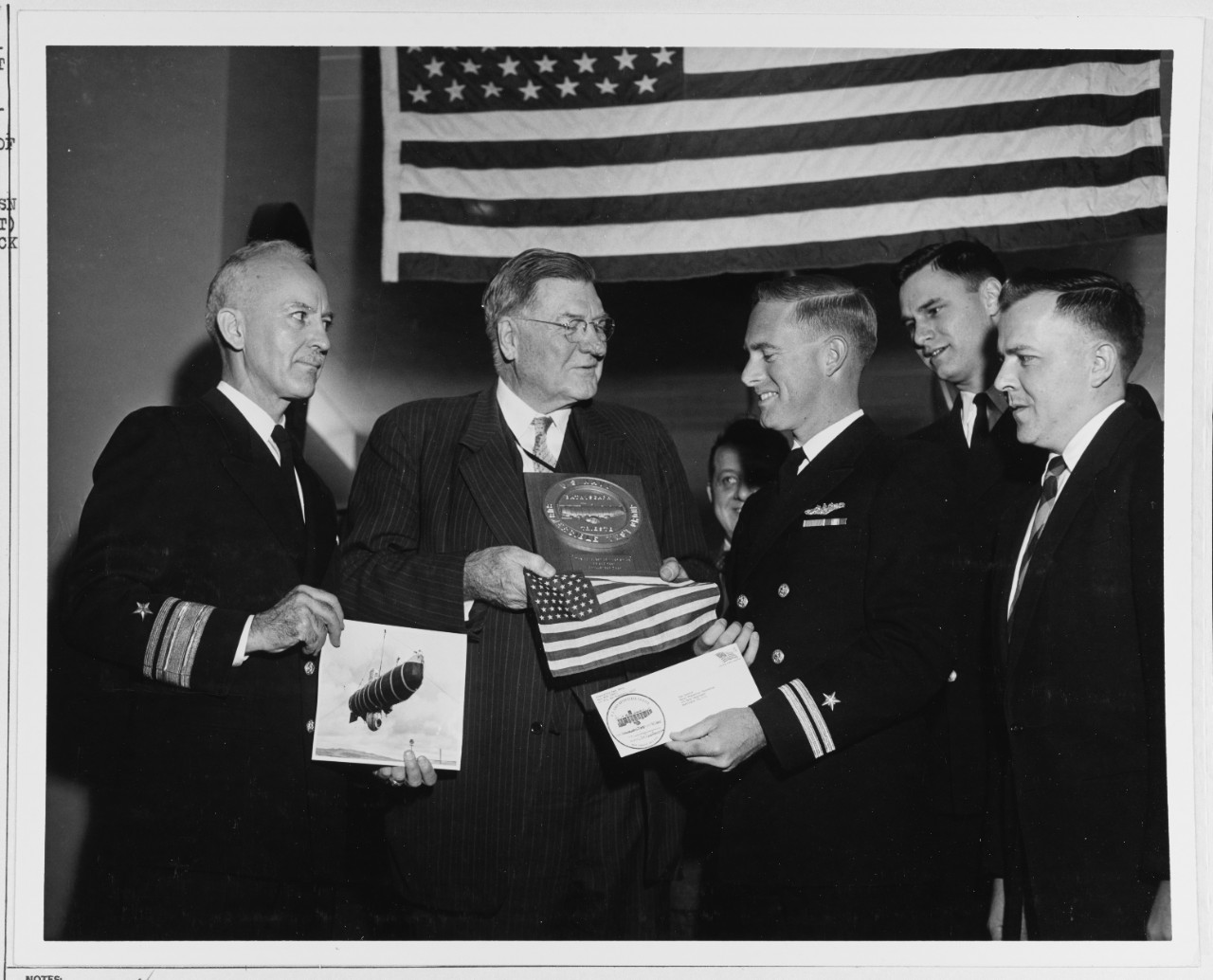 Presentation made to Naval Historical Foundation by Lt. Don Walsh, Officer in charge, Bathyscaph Trieste, of a commemorative Plaque, an American Flag, a Philatelic cover and photograph of Trieste. Left to right; rear admiral E. M. Eller, USN (RET), Vice Admiral John F. Shafroth Jr., USN (RET) Lt. Don Walsh, USN, Ensign F. H. Steck USNR, Mr. H.A. Vadnais Jr. Trieste dove to a record depth of 35, 800 feet off island of Guam on 23 January 1960 in Navy's most outstanding effort in its conquest of inner space.